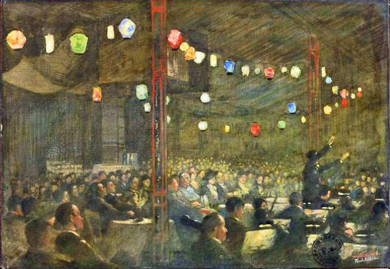 Painting of a gala performance of The Mikado at the the British Civilian POW Camp, Ruhleben, Germany. The image shows a concert in progress within a large room. The conductor is the only standing figure, raising his arms in front of the orchestra, visible in the right foreground. A large seated audience looks on; coloured oriental lanterns hang between narrow pillars, high up towards the ceiling. This was one of hundreds of musical performances that took place at the Ruhleben internment camp near Berlin, Germany, during the First World War. This Mikado was only possible because musicians at the camp were able to reconstruct the score from memory." (see MacMillan, Sir Ernest (1997). MacMillan on music: essays on music, Carl Morey (ed.) pp. 25–27, Dundurn Press ISBN 1-55002-2857)